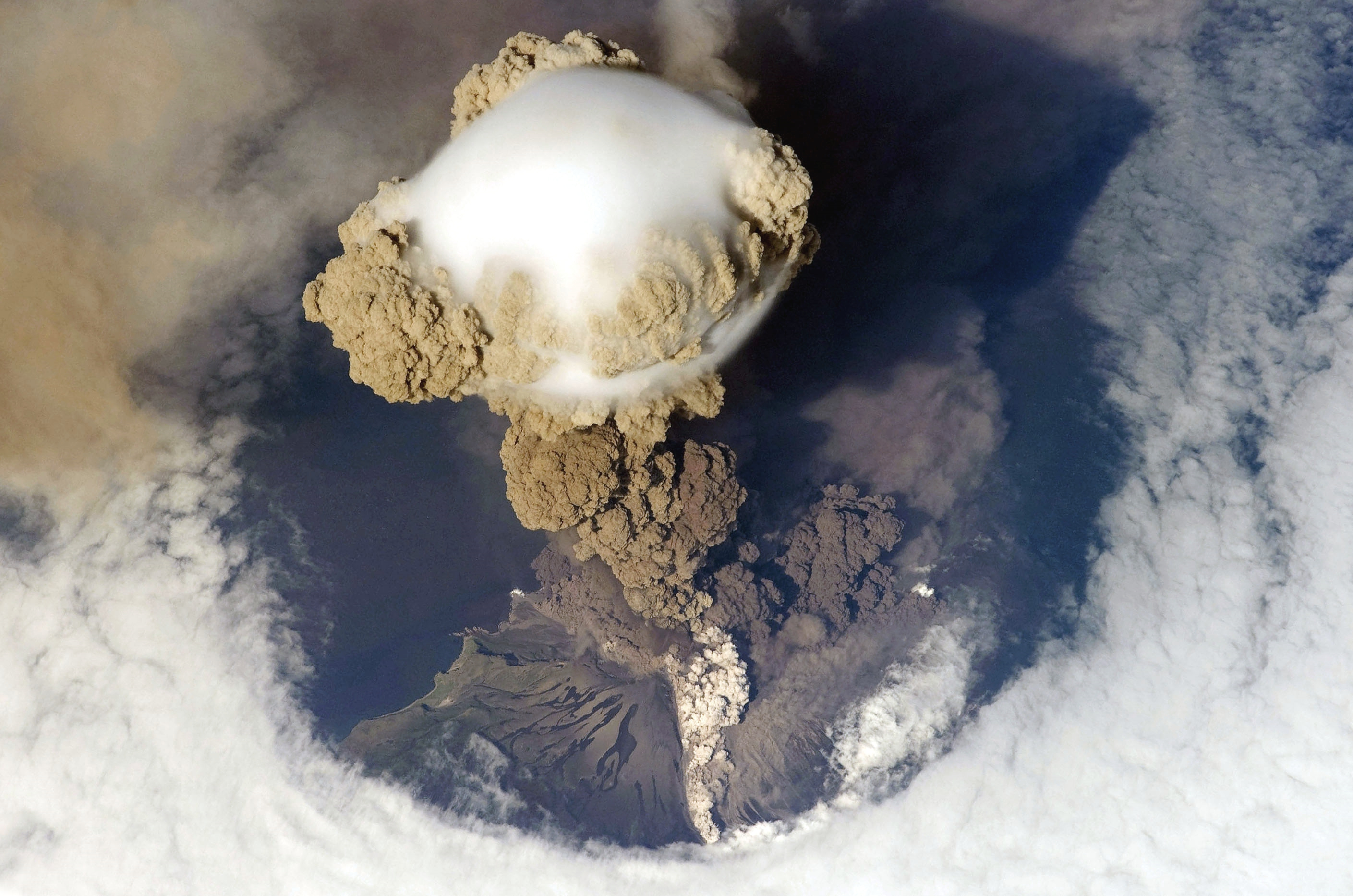 Sarychev Peak Volcano erupts June 12, 2009, on Matua Island.